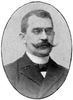 Image scanned from the book "Svenskt Porträttgalleri XX - Arkitekter, Bildhuggare, Målare m.fl. " ("Swedish Portrait Gallery XX - Architects, Sculptors, Painters, ") published 1901